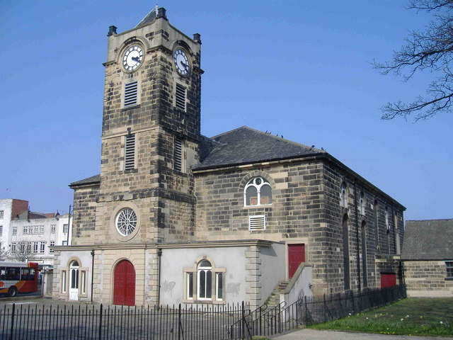 St Hilda's parish church, South Shields, Tyne and Wear, England, seen from the southwest